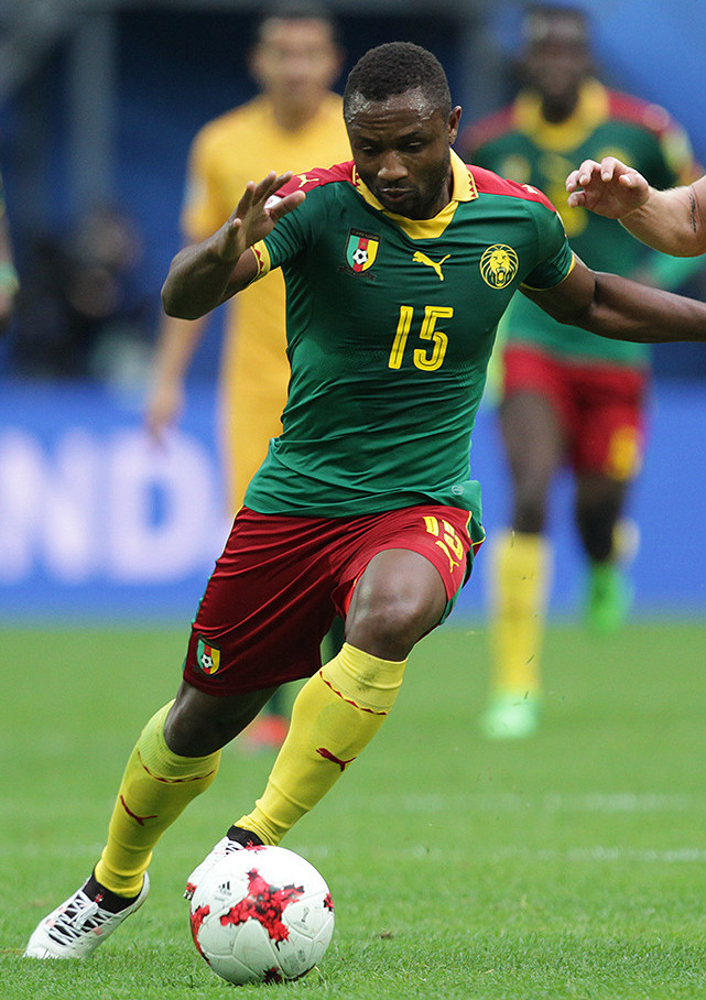 Cameroon vs Australia (1-1). FIFA Confederations Cup 2017